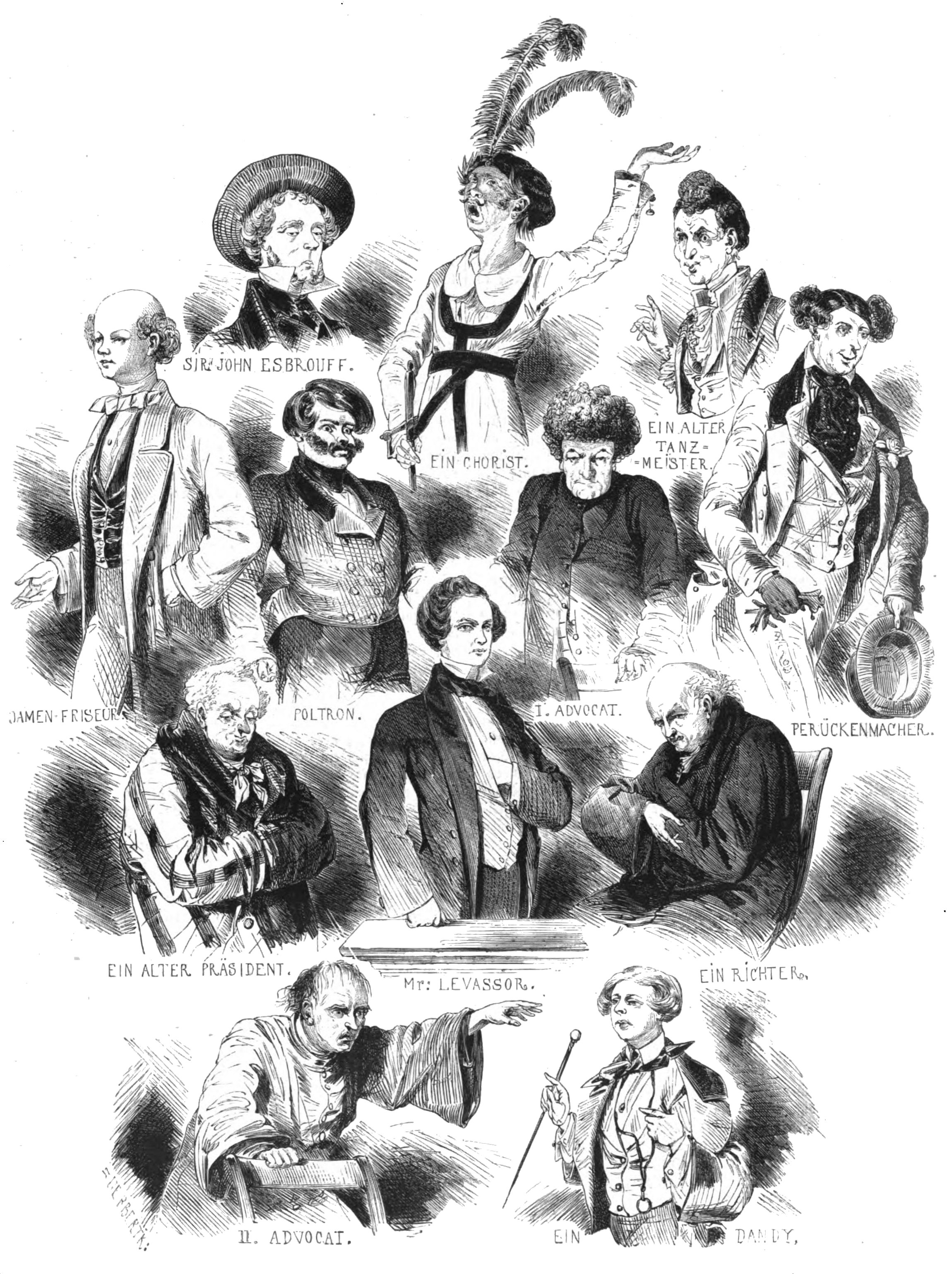 no caption